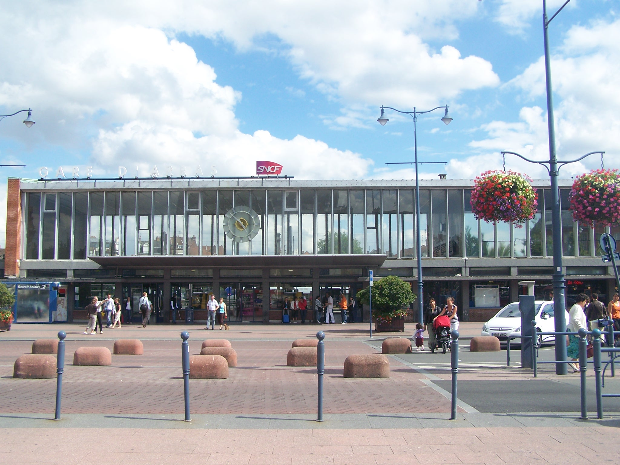 Arras, Pas-de-Calais, France - Front of the train station.